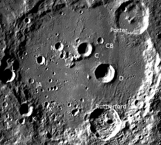 LROC WAC image of Clavius with most important craters tagged. There is a mistake on this photo. Crater designated as Rutherford is in fact Rutherfurd. Rutherford is located on the far side of the Moon.